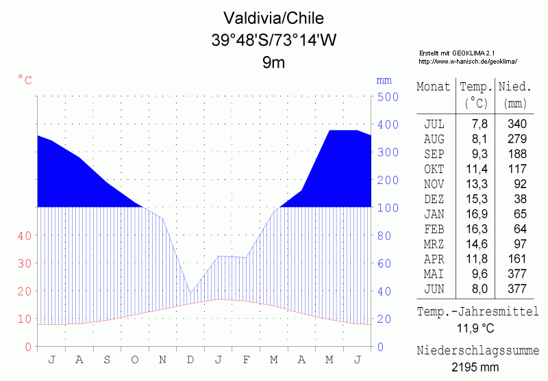 climate chart in the format by Walther and Lieth, metric, °Celsisus and millimeters, made with Geoklima 2.1